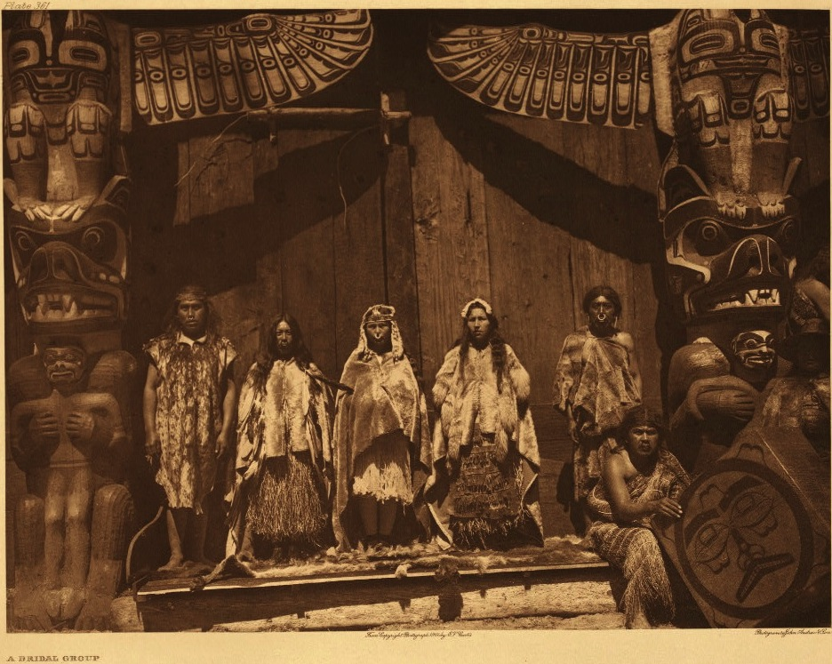 Edward Curtis photo of a Kwakwaka'wakw potlatch with dancers and singers. Kwakwaka'wakw people in a wedding ceremony, bride in centre. Photo taken by Edward Curtis, 1914. Film footage of this same event was used in Curtis' feature film In the Land of the Head Hunters